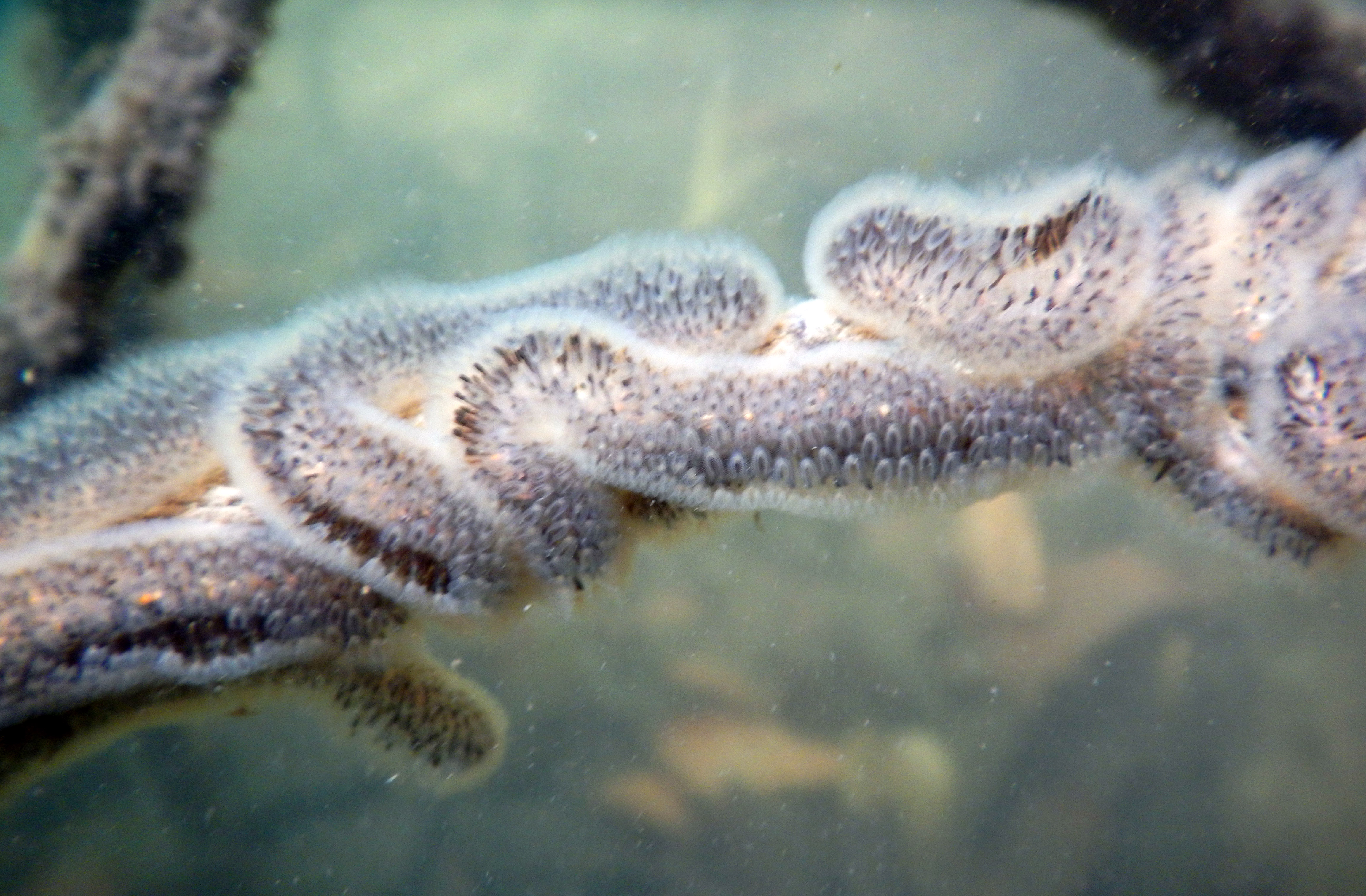 Bryozoan (cristatella mucedo) found living in colonies in the "Mid-Deûle" in the north of France - this fragile species seems to have appeared (or reappeared there) after import of clea water in the canal (over 2 million m3 / year)- . These animals lives in this case in a eutrophic water with sediments are polluted (formerly in constant contact with Upper-Deûle River, coming from the mining area (which were amongst the Métaleurop North Plant), on branches, wood piles, poles or walls ot the canal [but not or very rarely, and in this case may be accidentally) on the sediment] of this ancient channel (that is no longer open to traffic, replaced by a full-size section last more northwest).